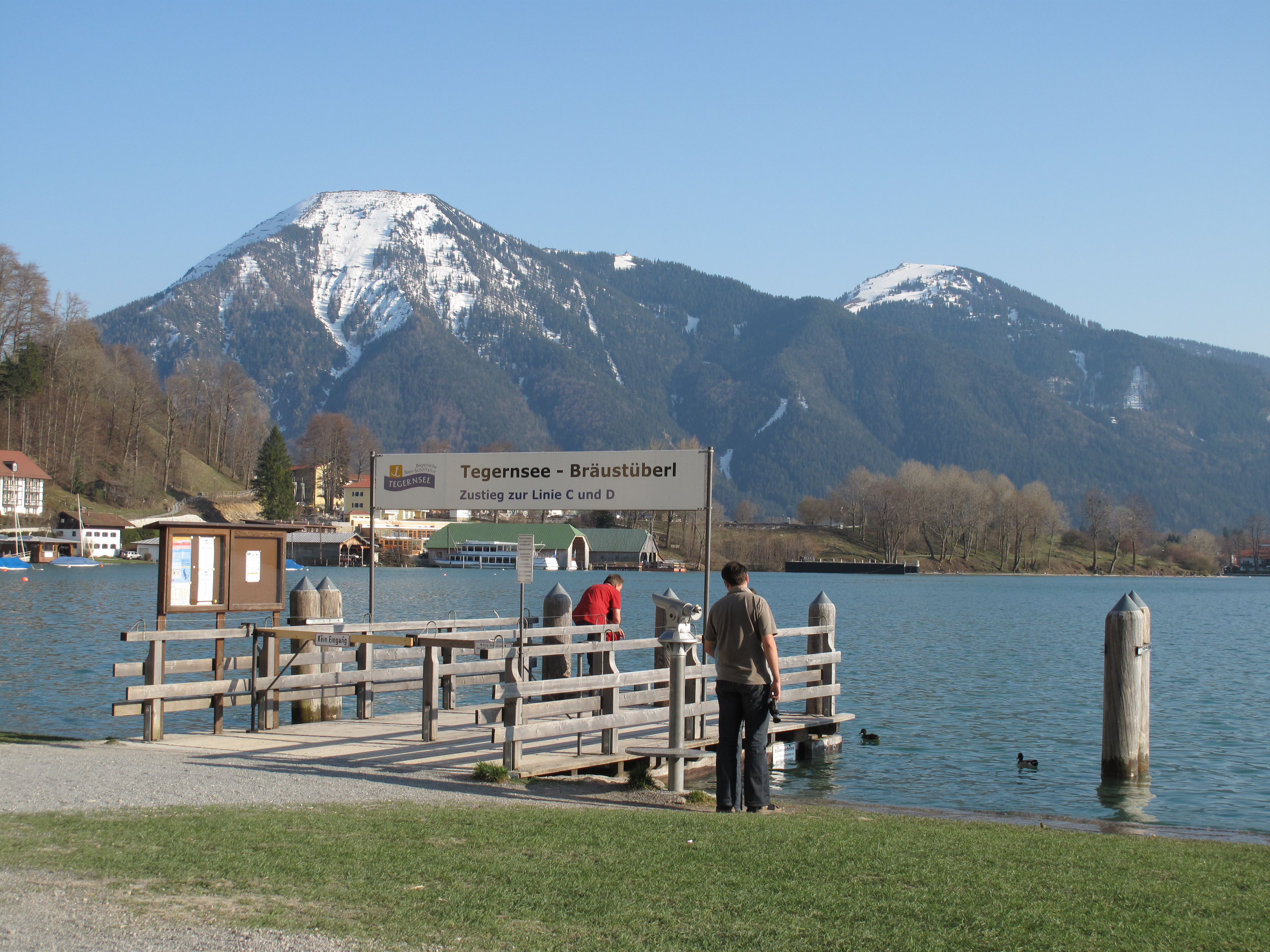 A small pier at the Tegernsee – close to the Tegernsee Abbey. Served by ships of the Bayerische Seenschifffahrt, with their boatyard in the background.